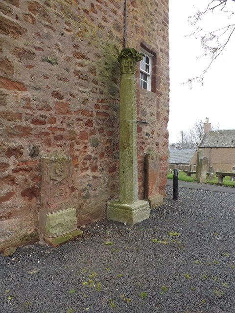 Greenlaw Old Mercat Cross